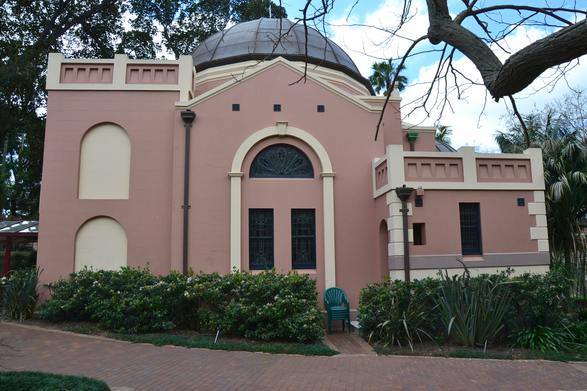 Sacred Heart hospice, Darlinghurst, Sydney